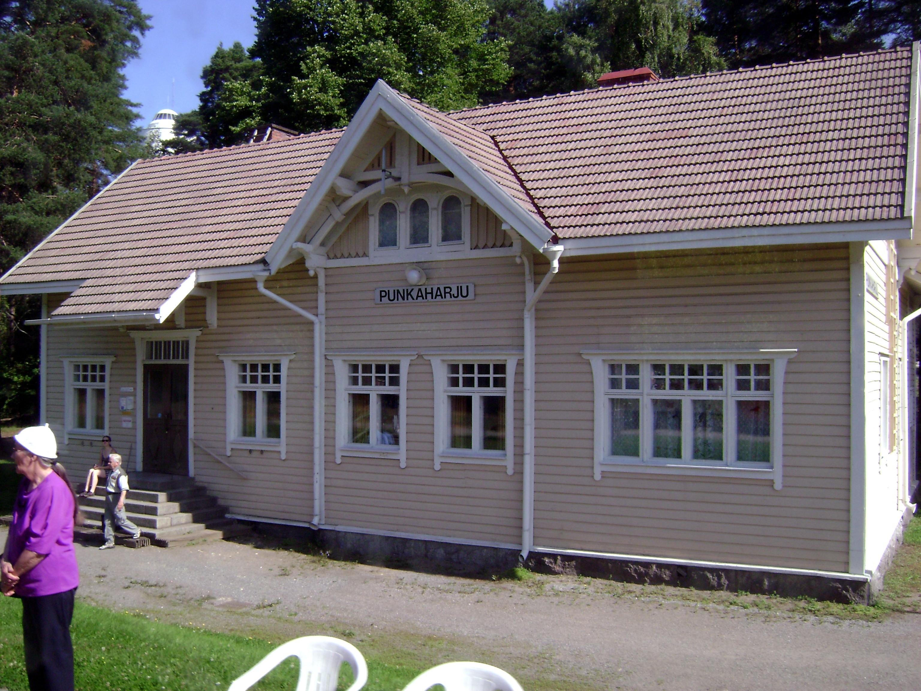 Punkaharju railway station (former Punkasalmi railway station) in Punkaharju (now part of Savonlinna), Finland